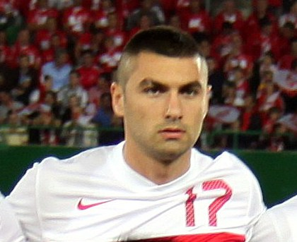 Burak Yılma cropped from Turkey national football team against Austria 2011-09-06 (0:0)